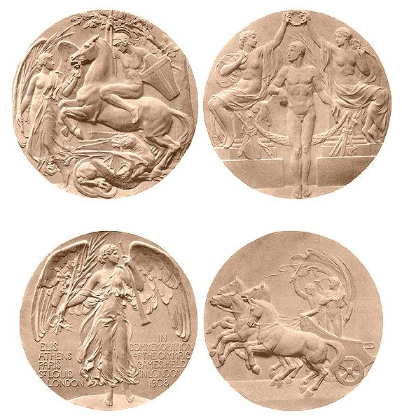 Top: Olympic prize medal for the first three of each competition (front and reverse side) Bottom: Commemorative medal for officials, guests and all athletes (front and reverse side)